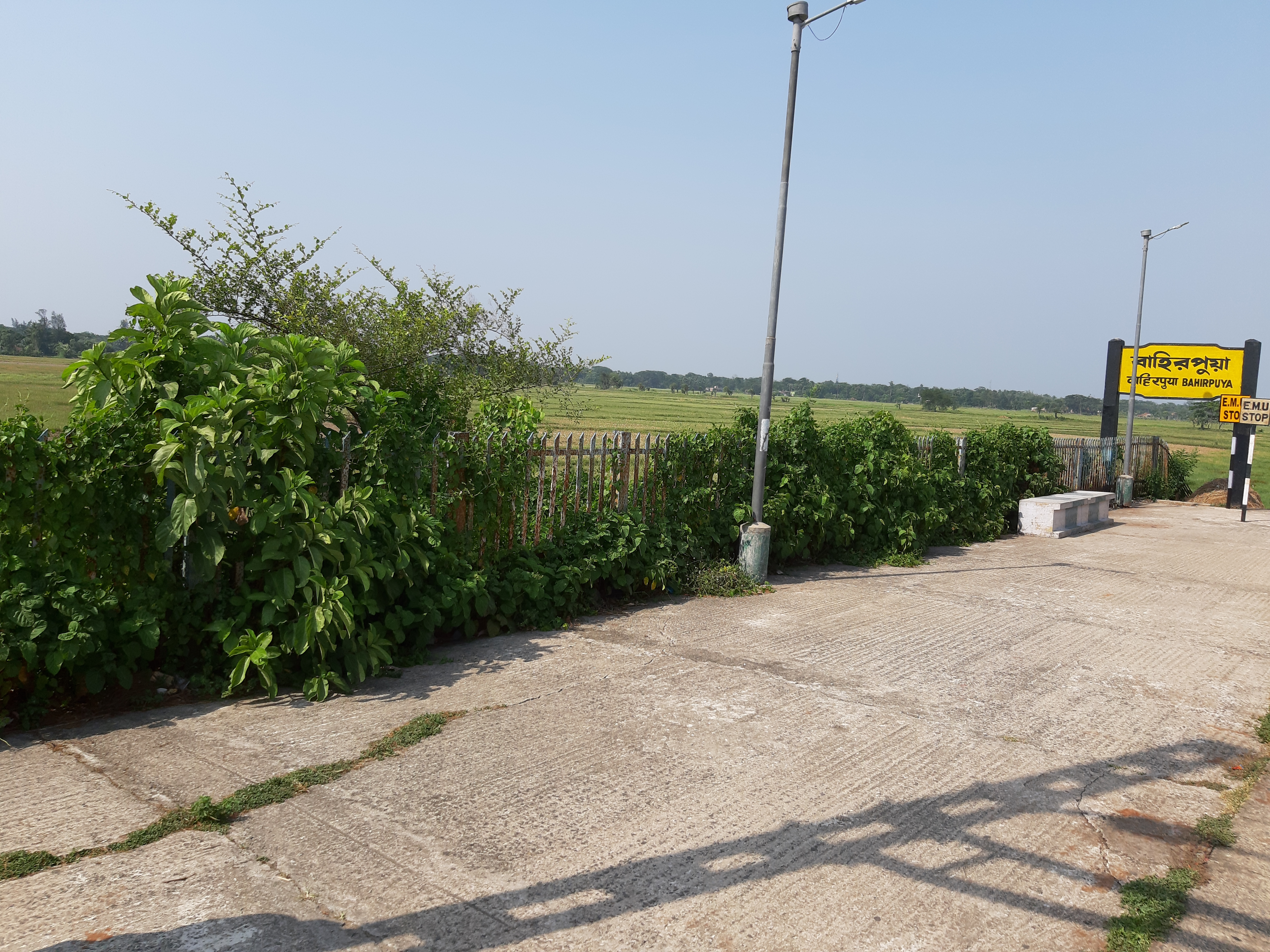 Baruipur to Diamond Harbour Railway